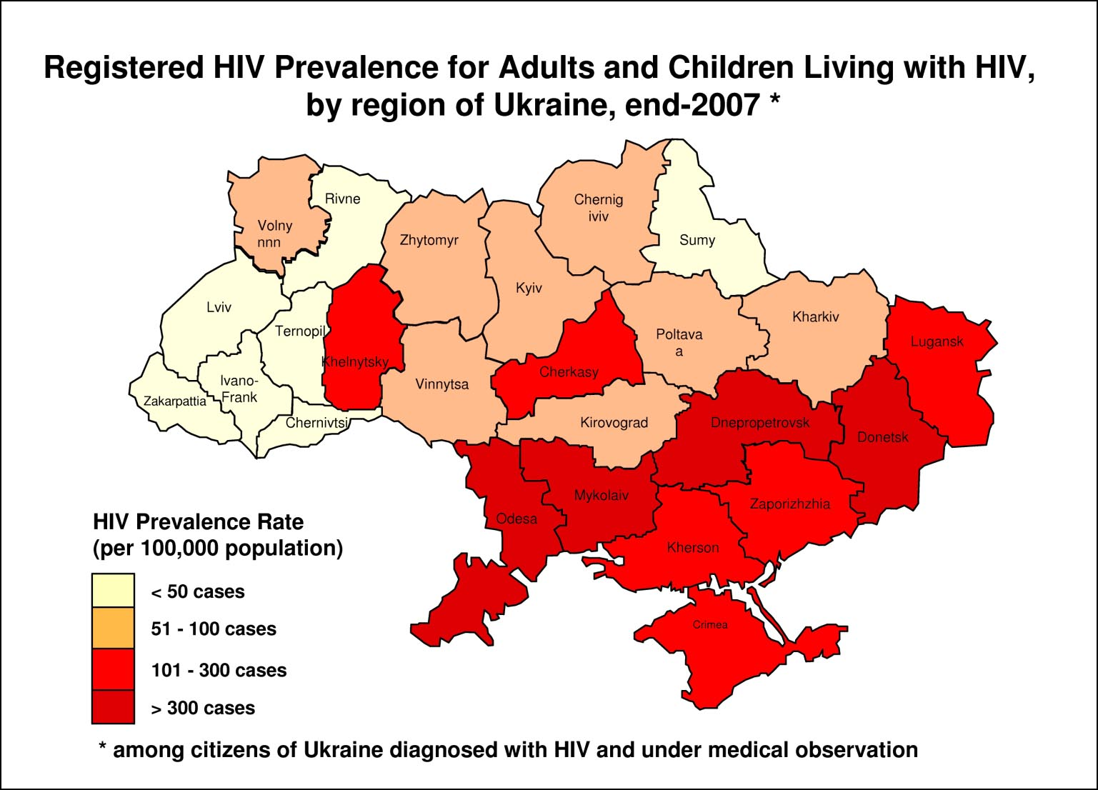 Registered HIV prevalence for adults and children living with HIV, by region of Ukraine, end-2007